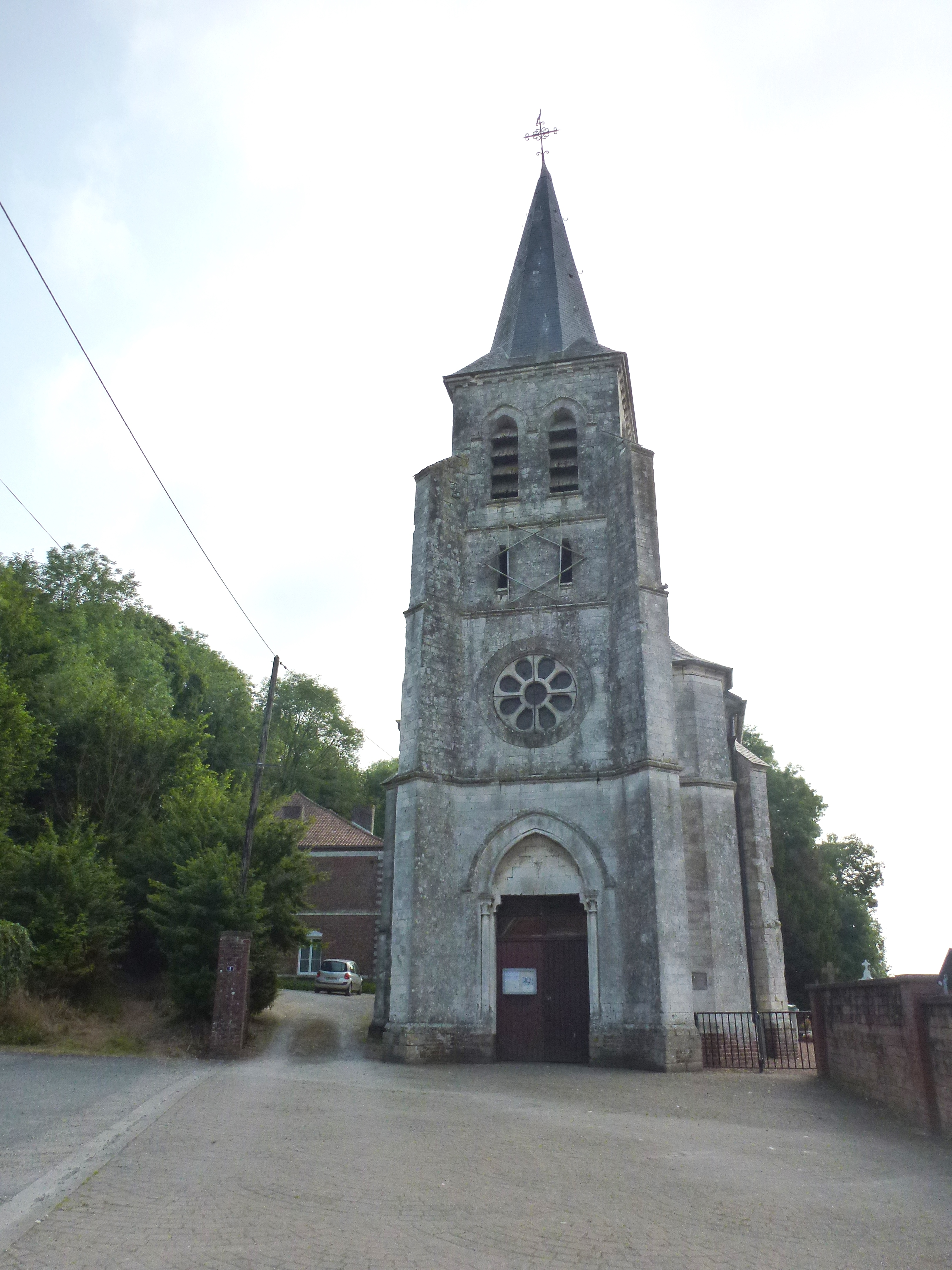 Enquin-les-Mines (Pas-de-Calais, Fr) église d'Enquin, tour